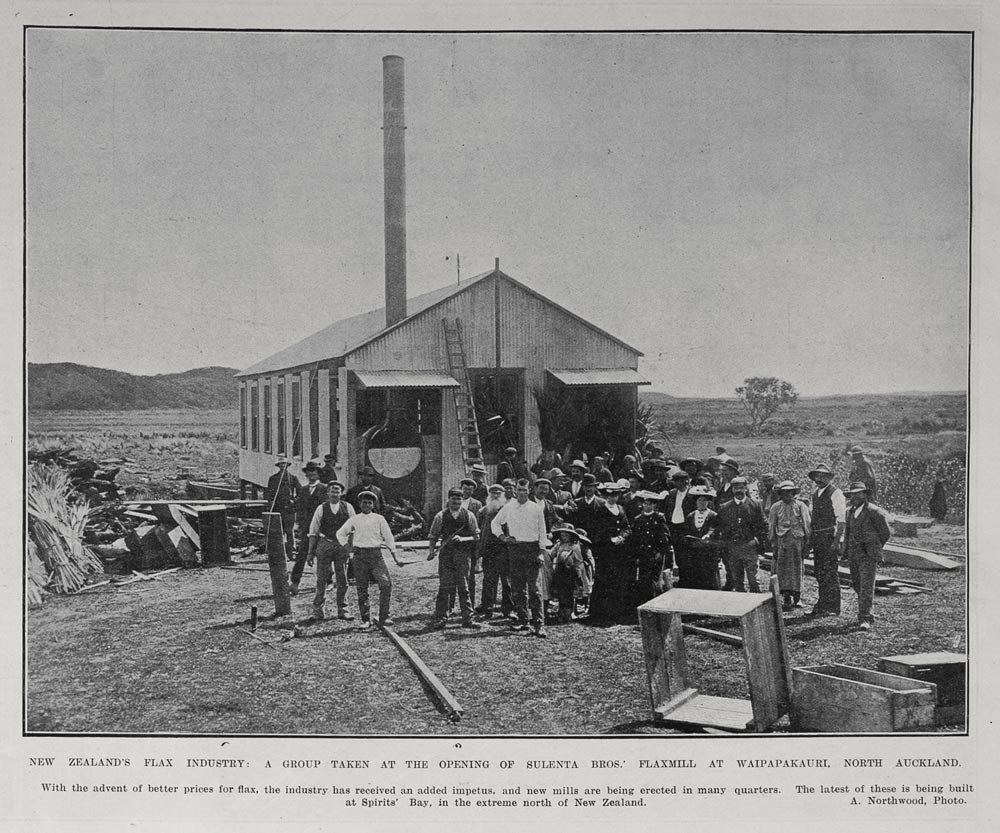 Waipapakauri steam-powered flaxmill AWNS-19061108-16-1